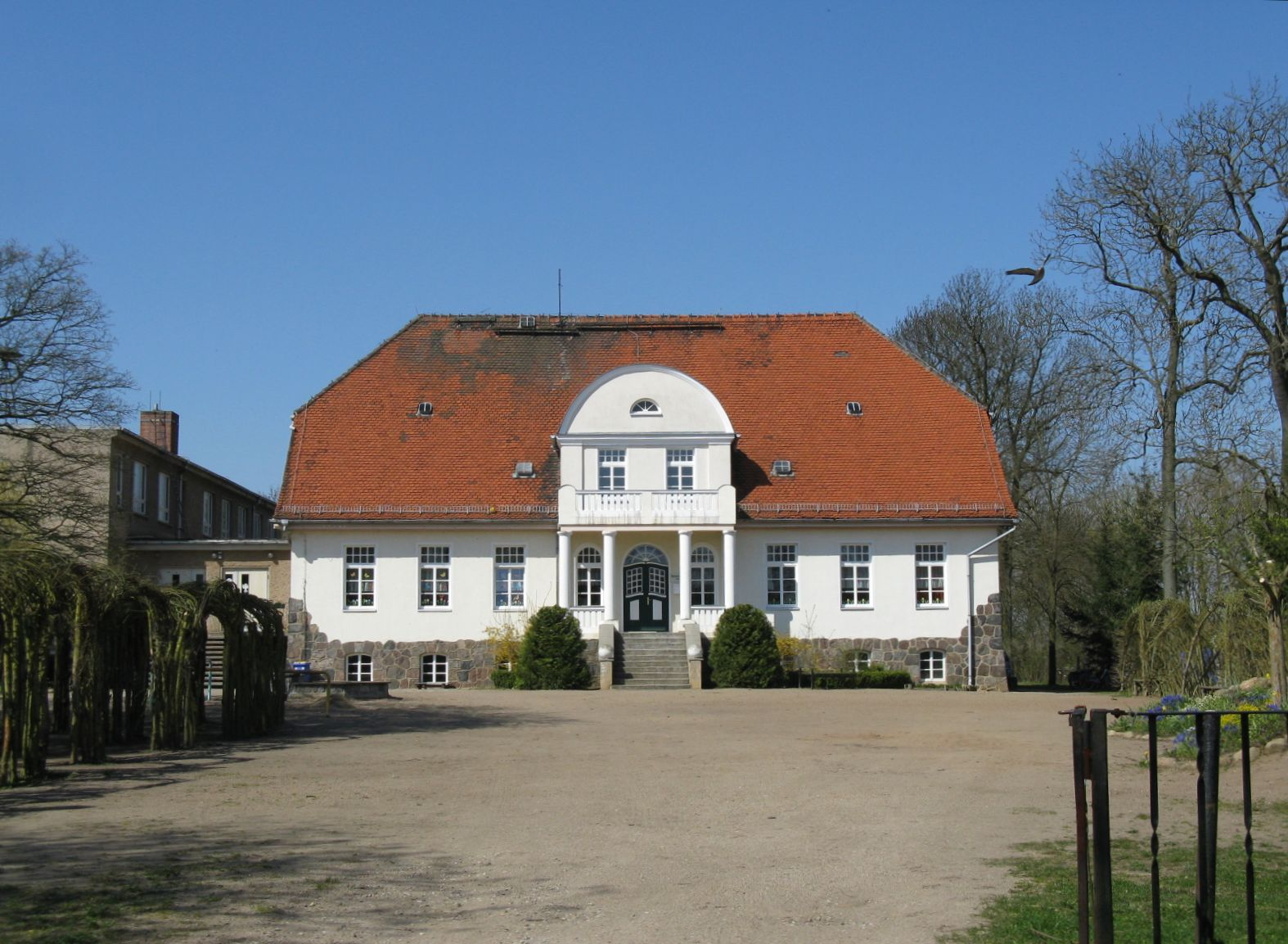 Manor house in Ganzlin, Mecklenburg-Vorpommern, Germany